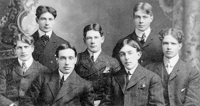 Kenora Thistles ice hockey team circa 1905–1906.